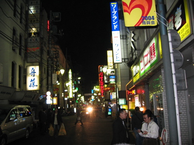 Shinjuku in Tokyo: a back alley at night.